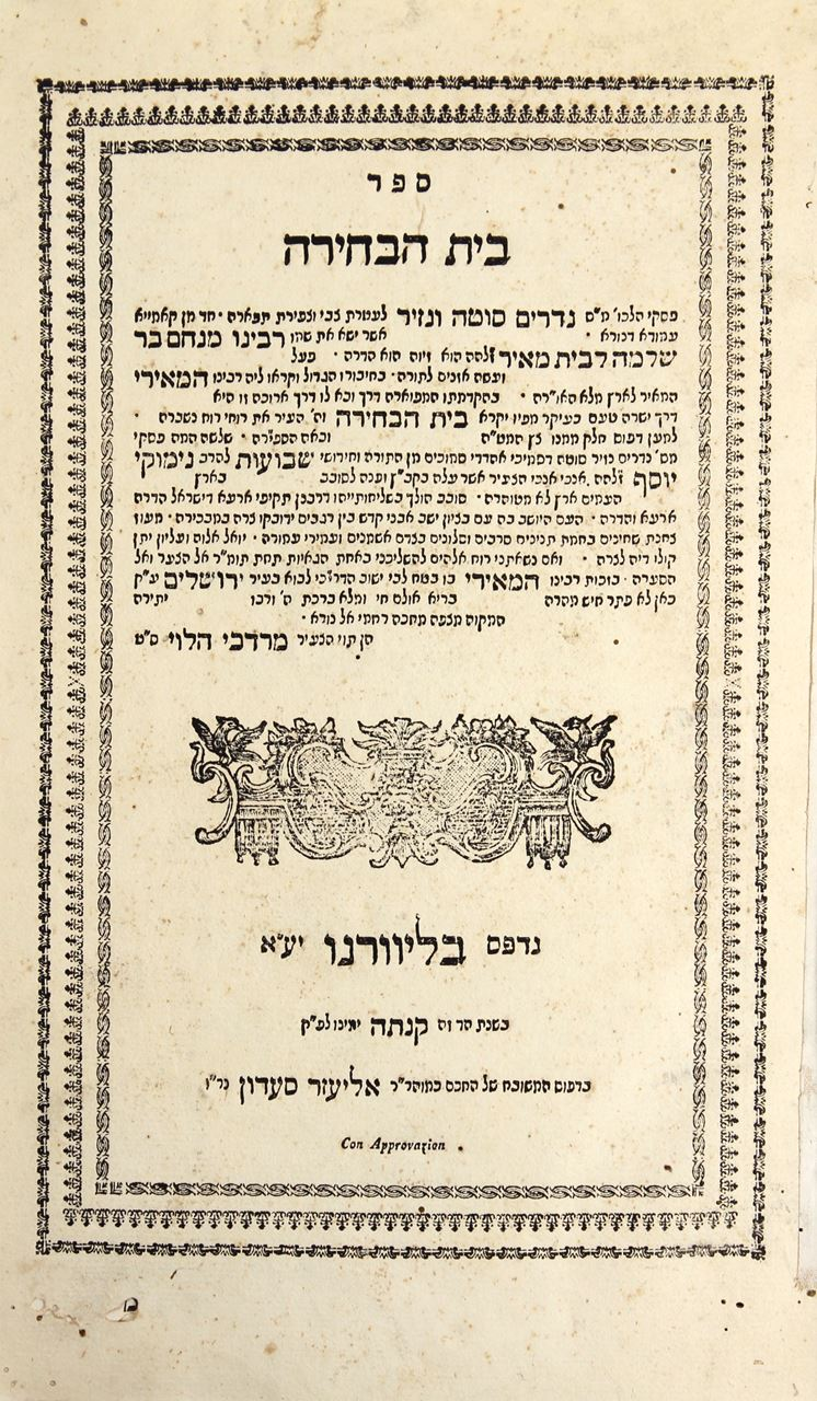 Menachem Meiri: Beit HaBechirah. Printed in Livorno 1795.